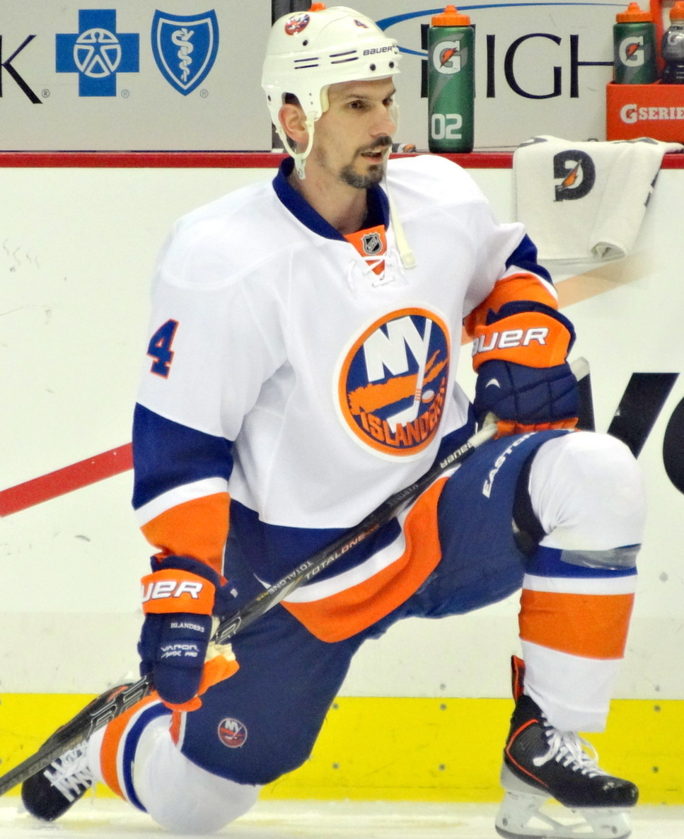 New York Islanders defenseman during round one, game five of the 2013 Stanley Cup playoffs against the Pittsburgh Penguins, May 9, 2013 at Consol Energy Center.